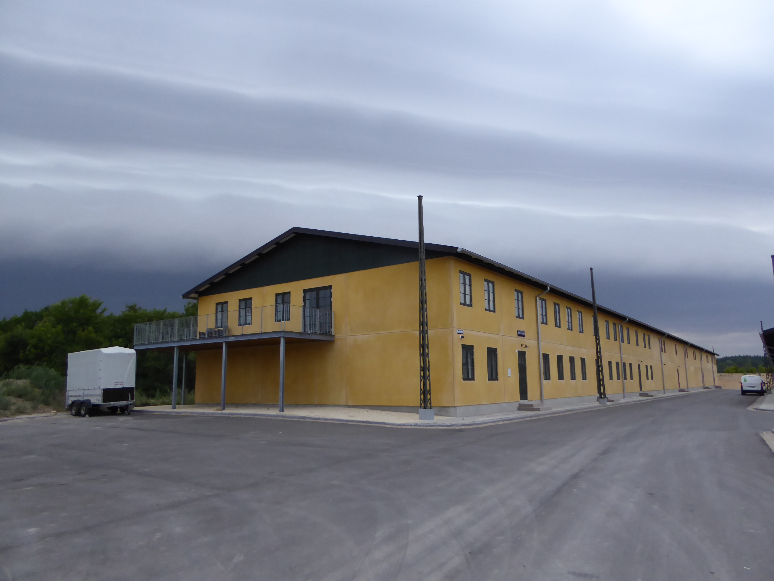 The archive and depot building Magasinet at Sporvejsmuseet Skjoldenæsholm in Denmark.